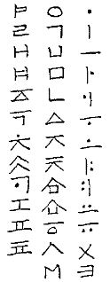 Karimto, an script claimed to be used in ancient Korea